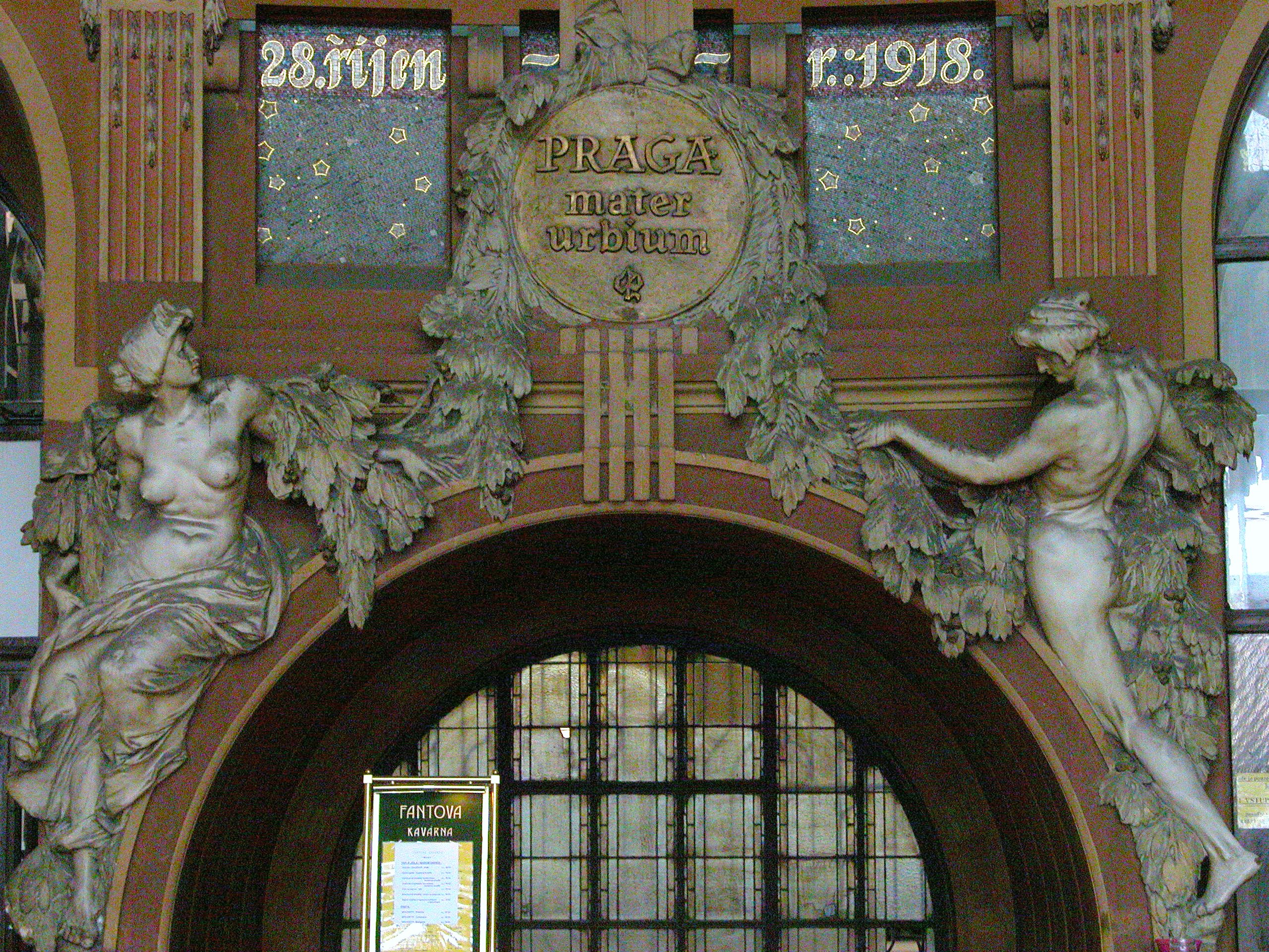 Prague, Czech Republic: Central station: Art Nouveau-café in the entrance hall (detail).